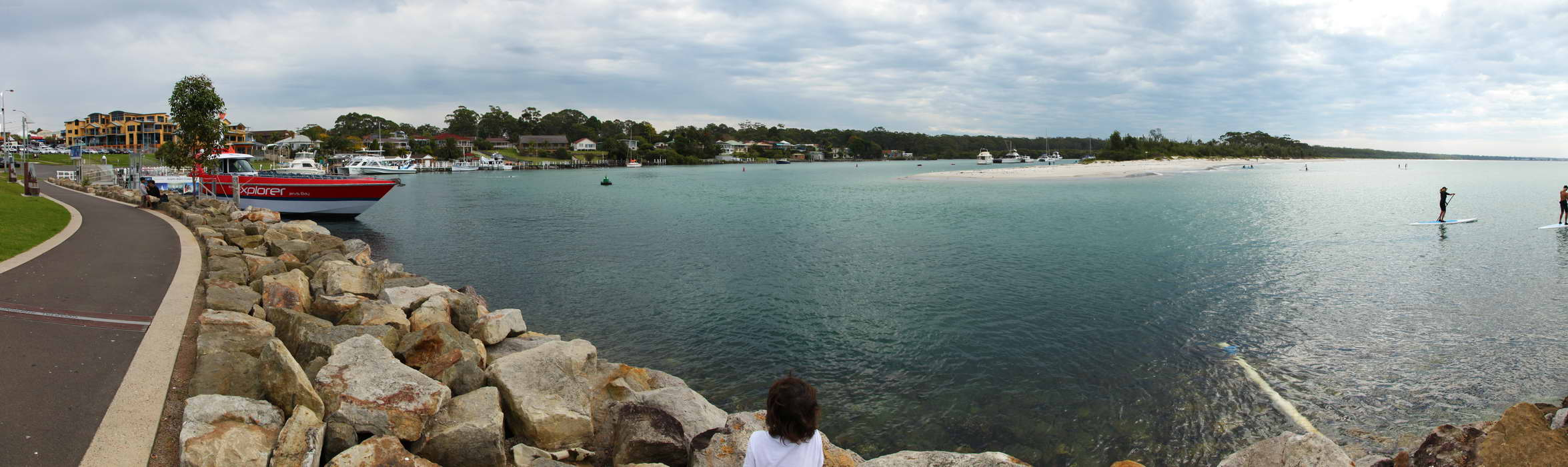 Panaorama of Currambene Creek, Huskisson, NSW